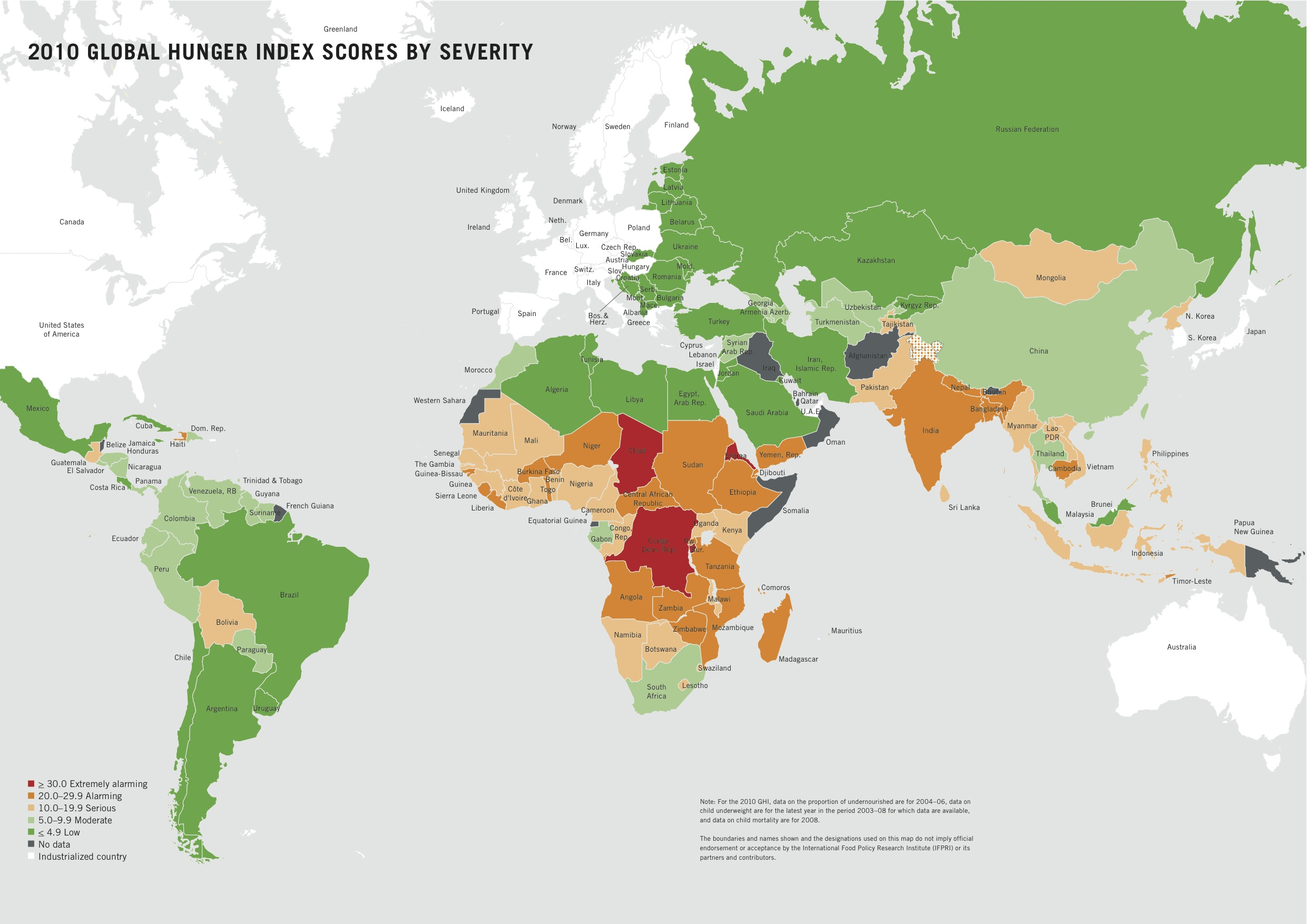 Map from the Global Hunger Index published by IFPRI, Welthungerhilfe and Concern